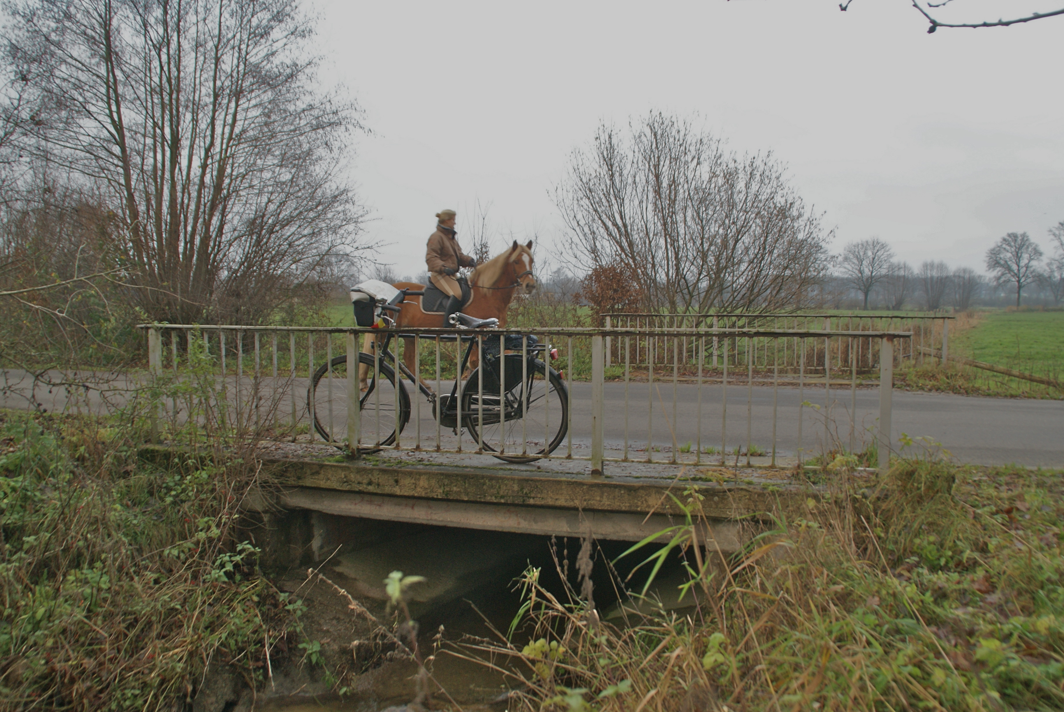 Henstedt-Ulzburg (Henstedt), Germany: The bridge of the Wohldweg over the river Wischbek